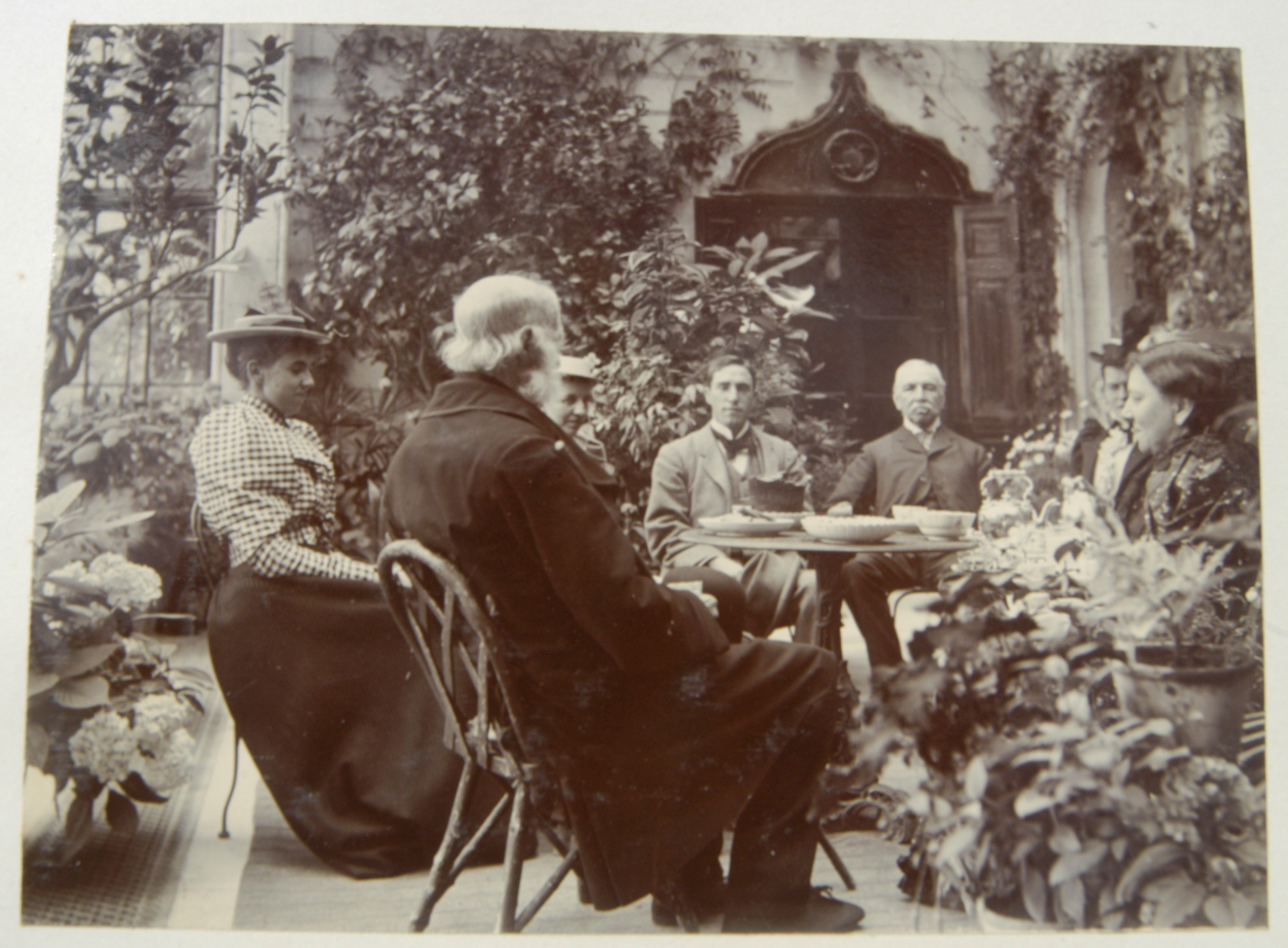 Photo (by me, R. de Salis, Rodolph (talk) 21:22, 18 August 2015 (UTC)) of a photograph of tea in the conservatory, Teffont Evias, Wiltshire, showing the back of the head of William Fane de Salis (1812-1896).